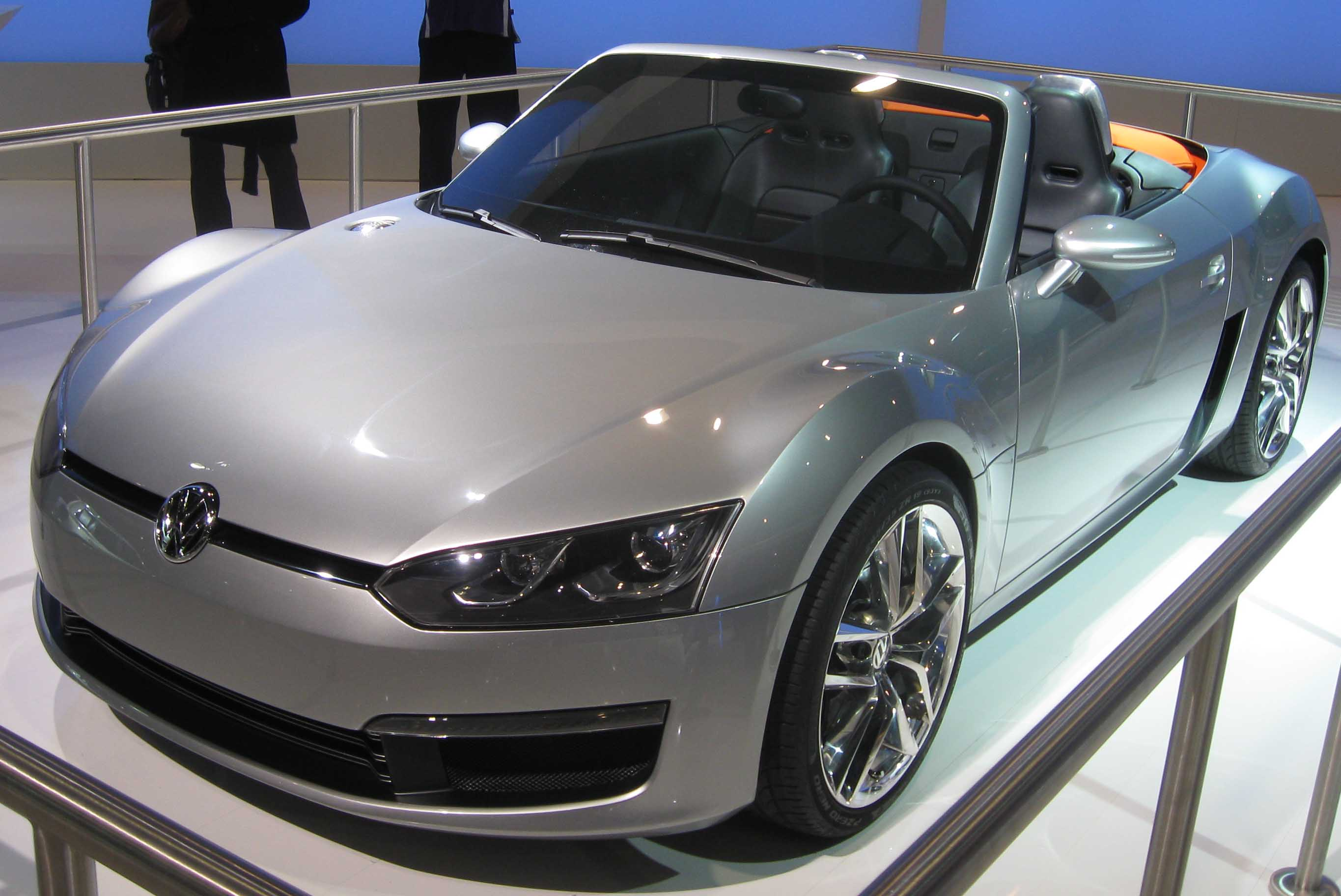 Volkswagen Bluesport photographed at the 2009 Washington DC Auto Show.